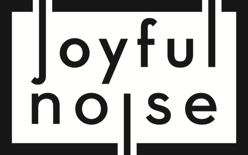 Logo of Joyful Noise Recordings.